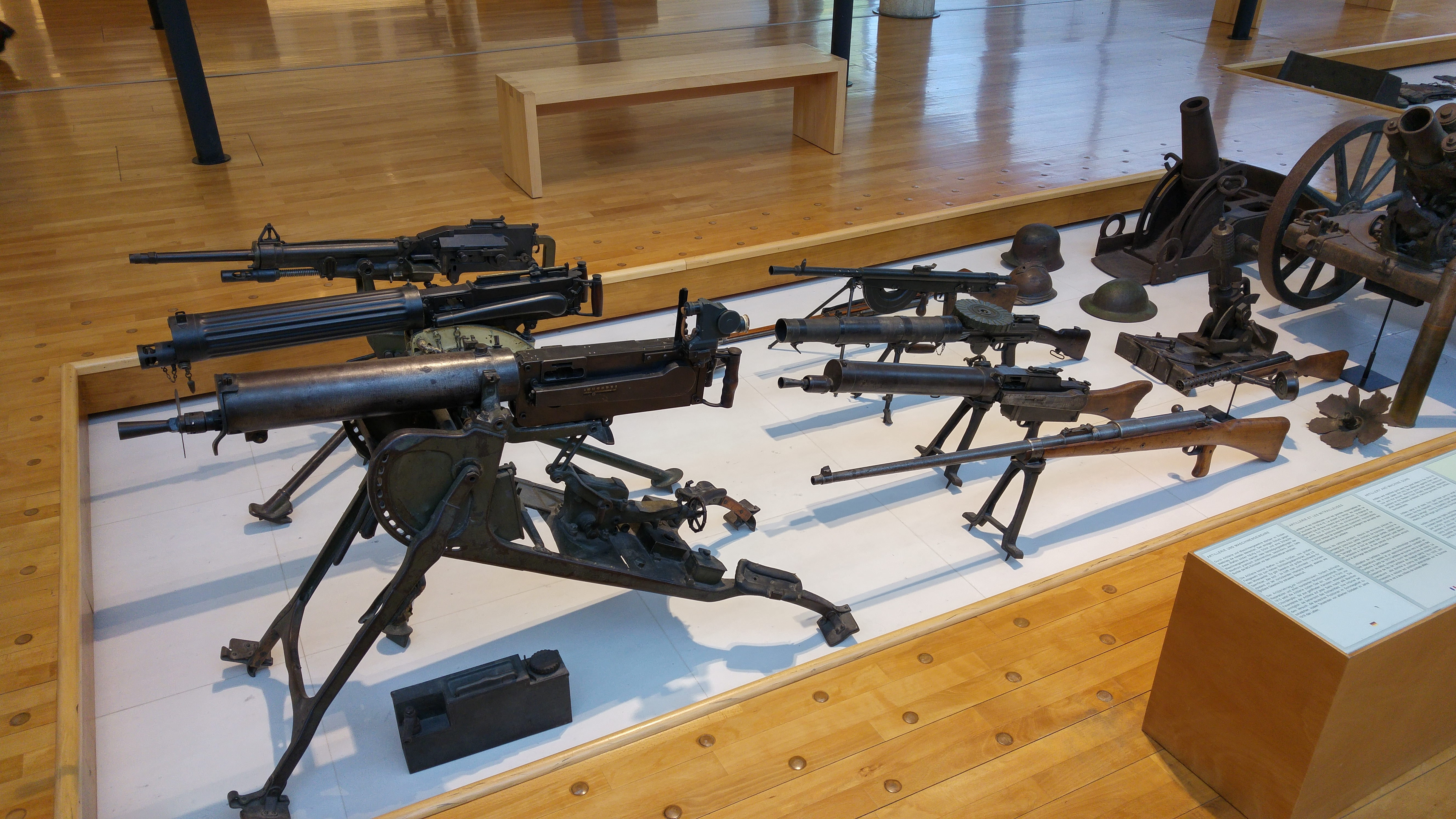 World War I museum "Historial de la Grand Guerre", Peronne, France